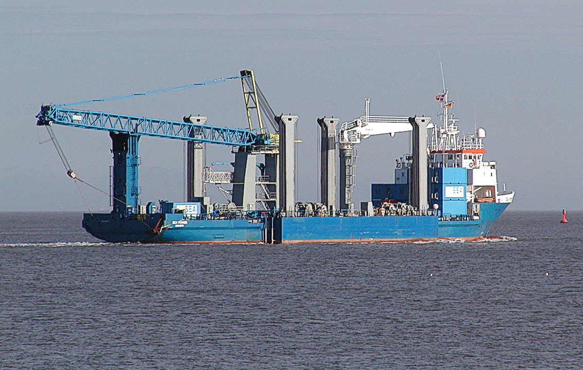 The SEA POWER, a Wind Turbine Installation Vessel IMO Number: 9002049 MMSI Number: 219079000 Callsign: OUVL2 Length: 121 m Beam: 24 m